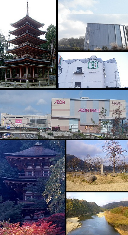 Kizugawa montage